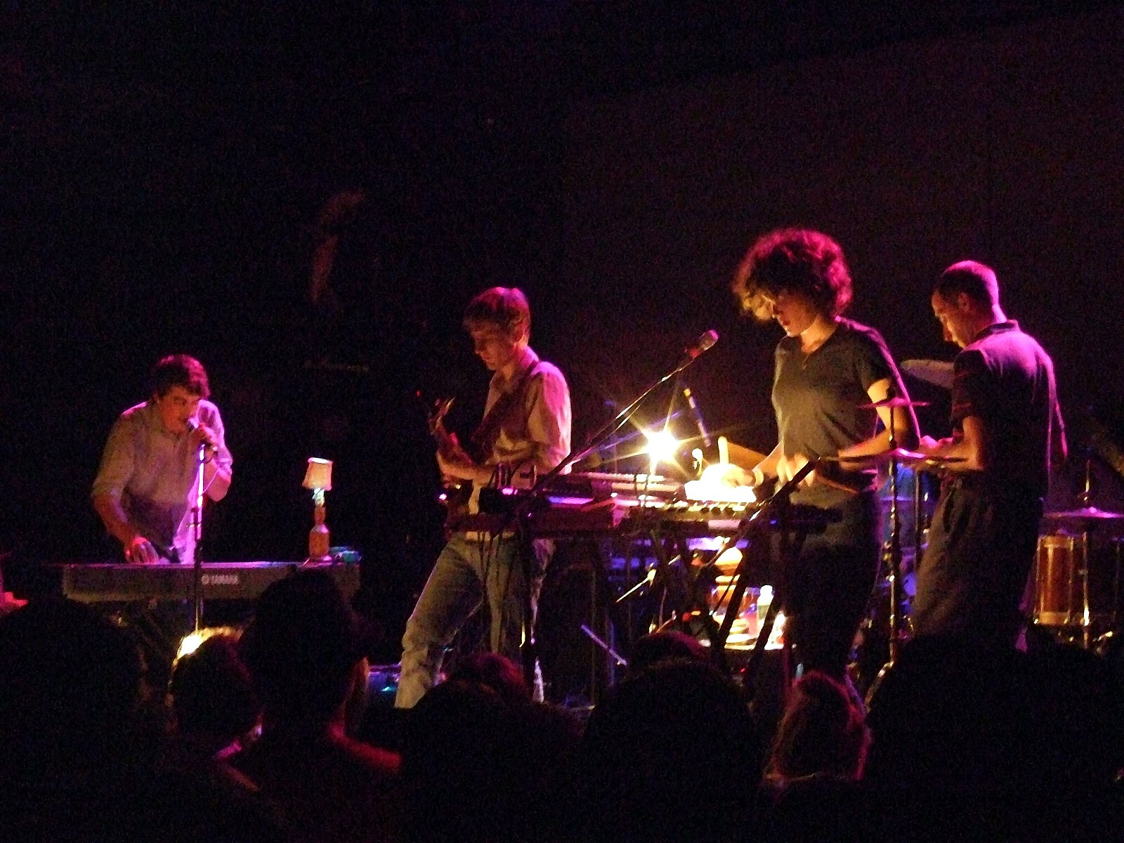 Sunset Rubdown perform at the the Bowery Ballroom in New York City on October 9, 2007.